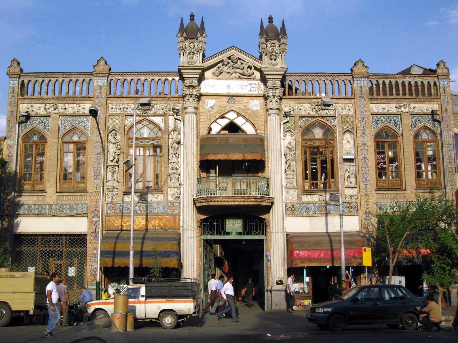 Saray-e Roshan commercial center in Naserkhosro Street of Tehran. This historical building is a perfect example of Gothic architecture with impression of ancient Roman design along with the Persian (Zoroastrian) symbol of Faravahar. It has been renovated in order to be used for the commercial purposes.